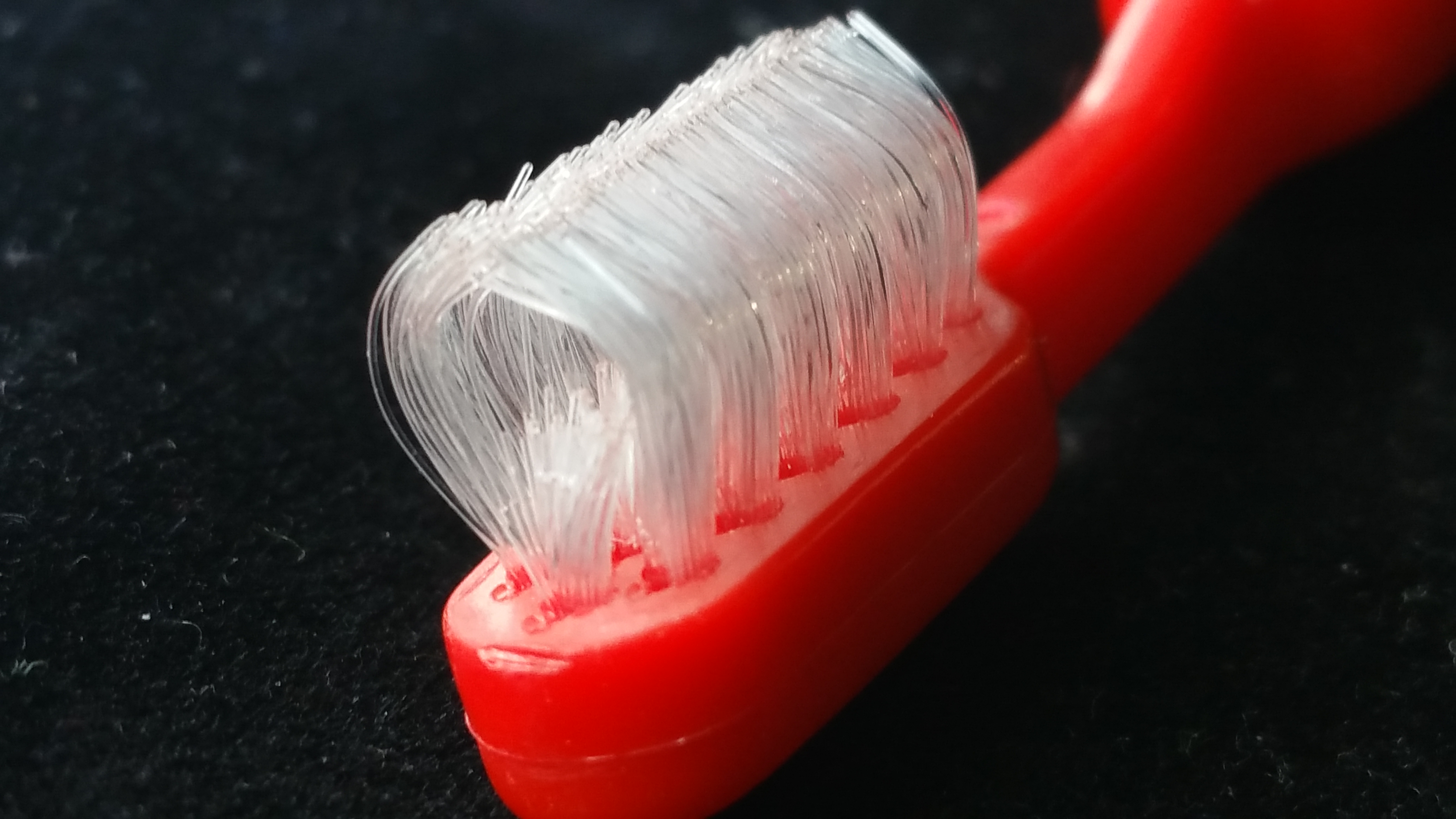 Shaped like a dental hygiene cleaning instrument, patented curved bristles of the Collis Curve toothbrush safely brush surfaces of teeth and gingival sulcus.